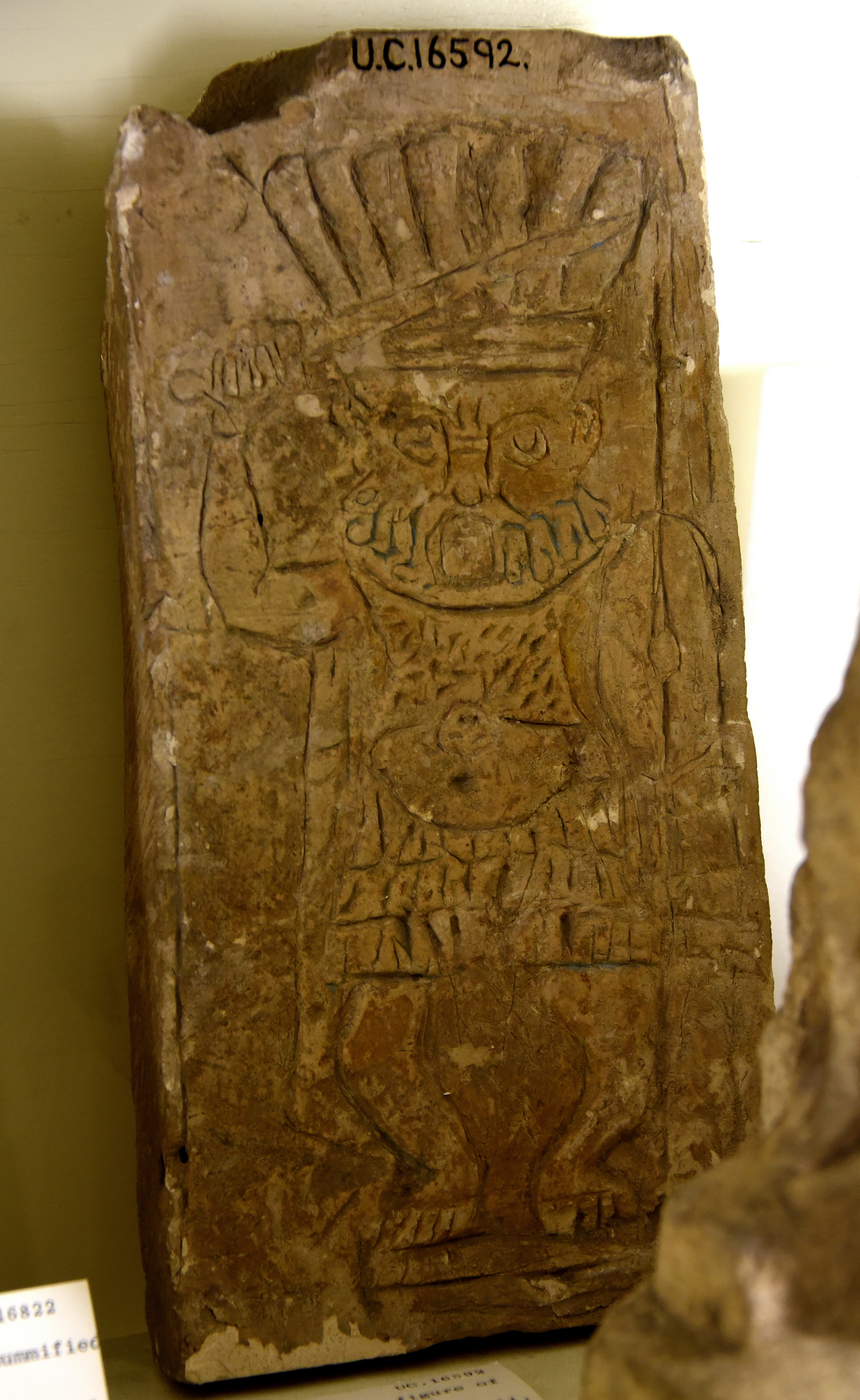 God Bes as a Roman soldier. Sword in right hand and spear and shield in left hand. Limestone slab, in relief. Roman Period. From Egypt. The Petrie Museum of Egyptian Archaeology, London. With thanks to the Petrie Museum of Egyptian Archaeology, UCL.